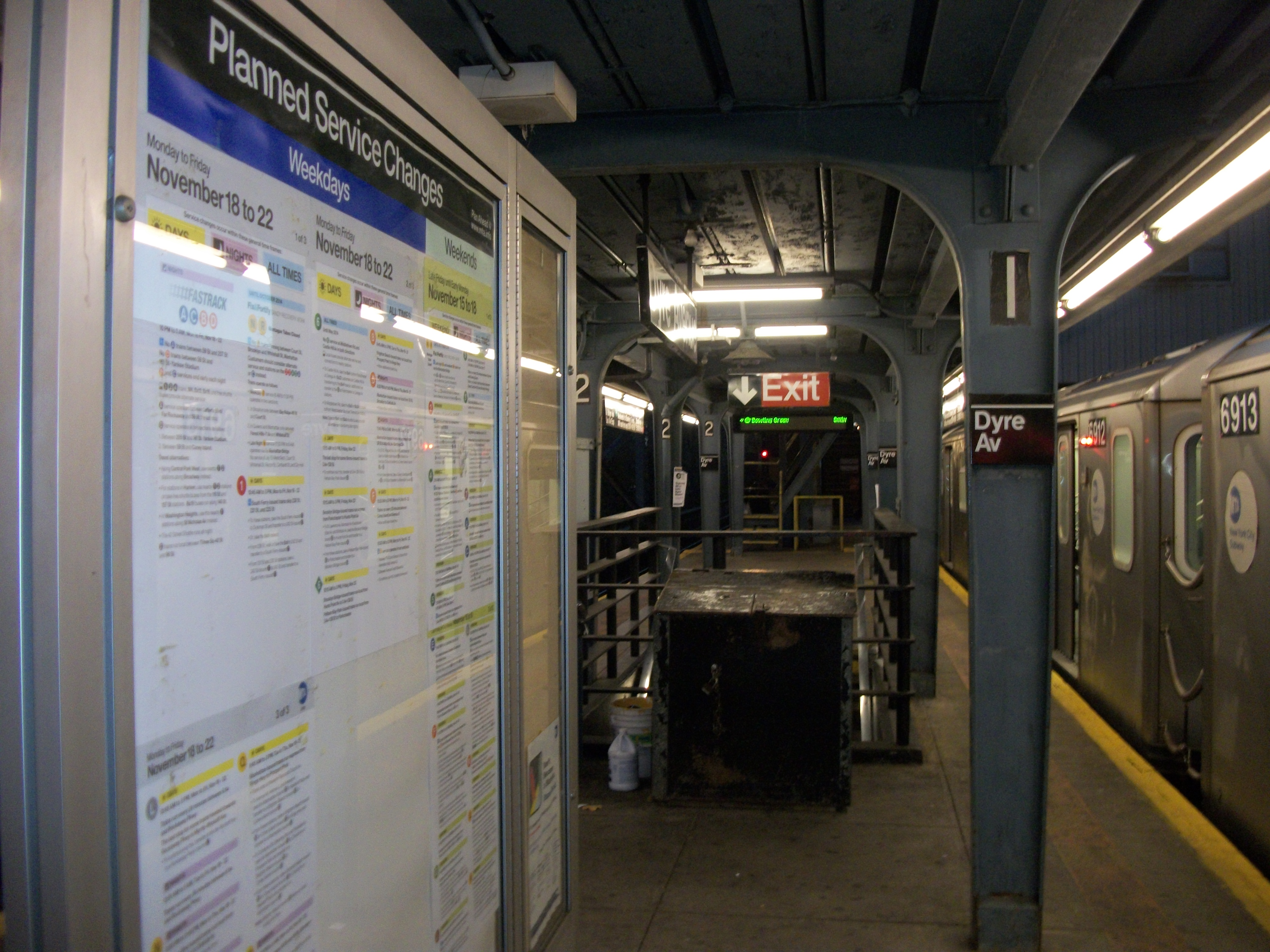 Dusk shot of Track Number 1 at the Eastchester – Dyre Avenue subway station on the IRT Dyre Avenue Line in the Eastchester section of The Bronx.